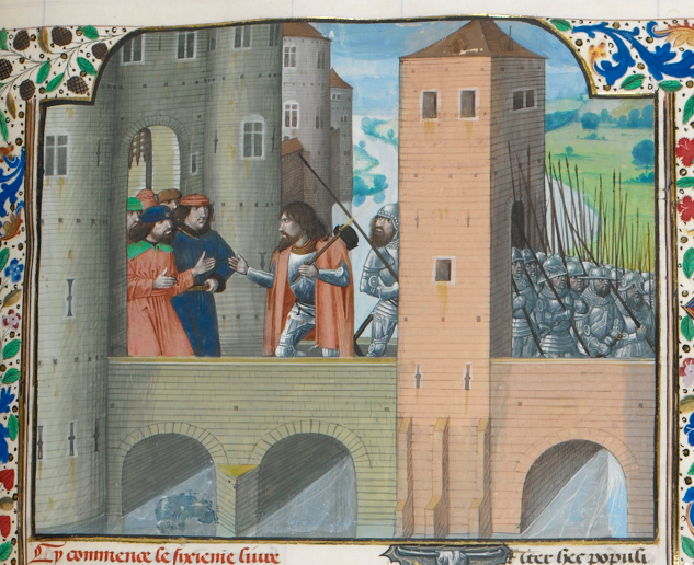 Scipio Africanus leaving Rome with his army; detail of a miniature from BL Royal MS 19 E v, f. 196r. Held and digitised by the British Library.